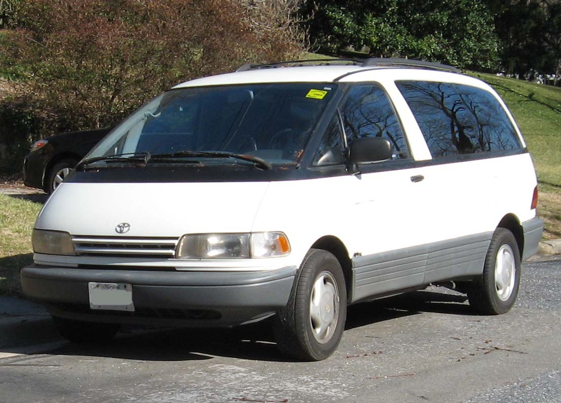 1991-1997 Toyota Previa photographed in USA.